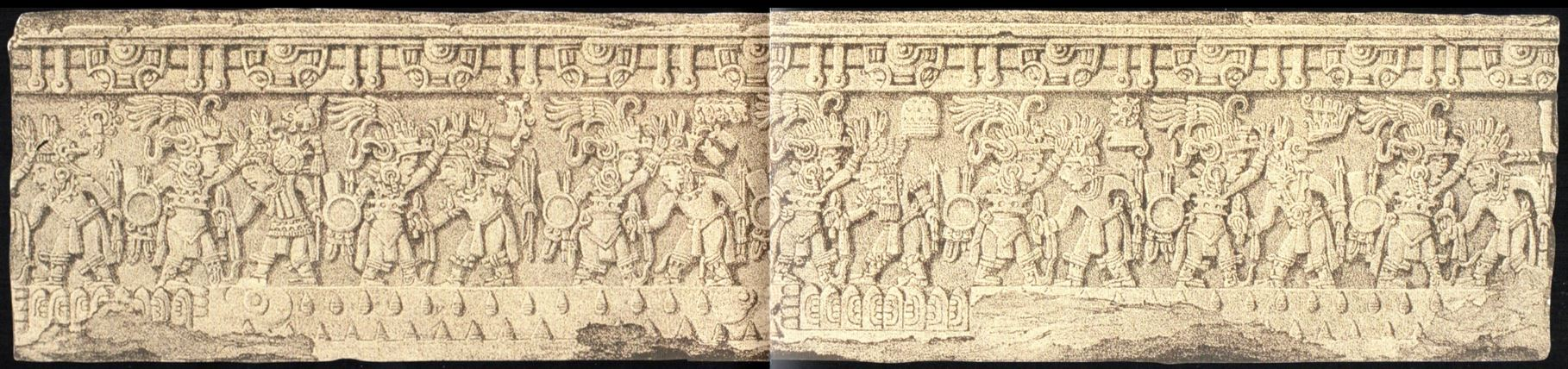 Lateral view 2 of the Piedra de Tizoc, Aztec sculpture